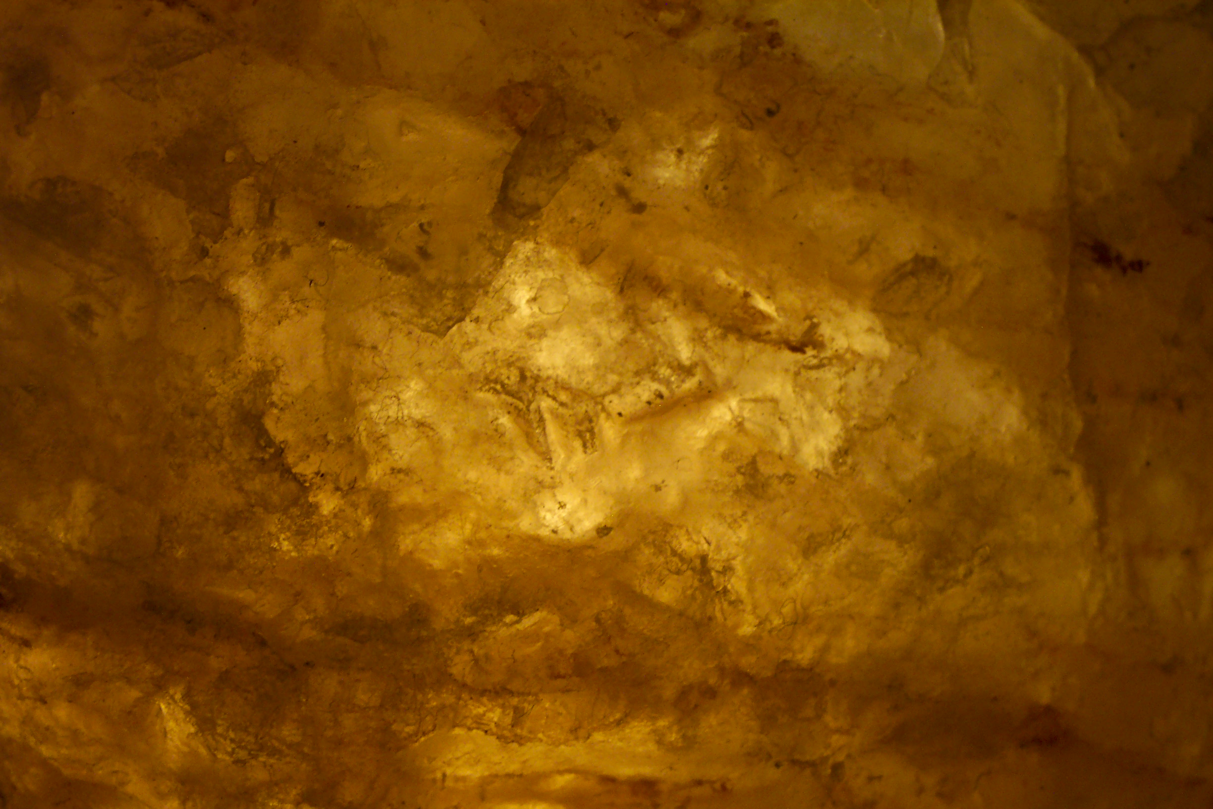 Stones in Israel